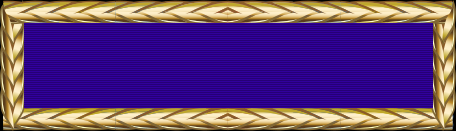 The Presidential Unit Citation, originally called the Distinguished Unit Citation, awarded to units of the Armed Forces of the United States and allies for extraordinary heroism in action against an armed enemy on or after 7 December 1941 (the date of the Attack on Pearl Harbor and the start of American involvement in World War II).